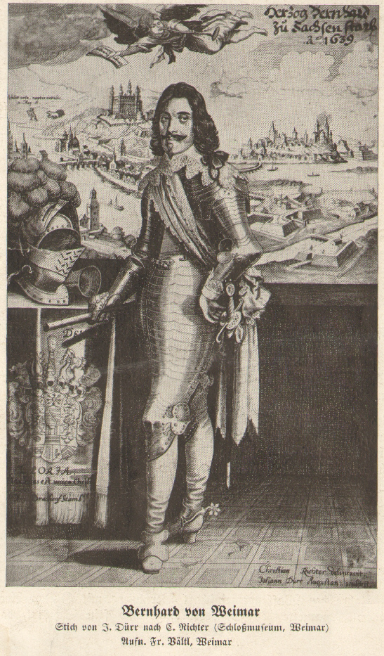 Copper engraving. Duke Bernhard of Saxe-Weimar, drawn by Christian Richter, engraved by Johann Dürr (Augustanus). Background left Würzburg with the fortress Marienberg, right Breisach am Rhein.